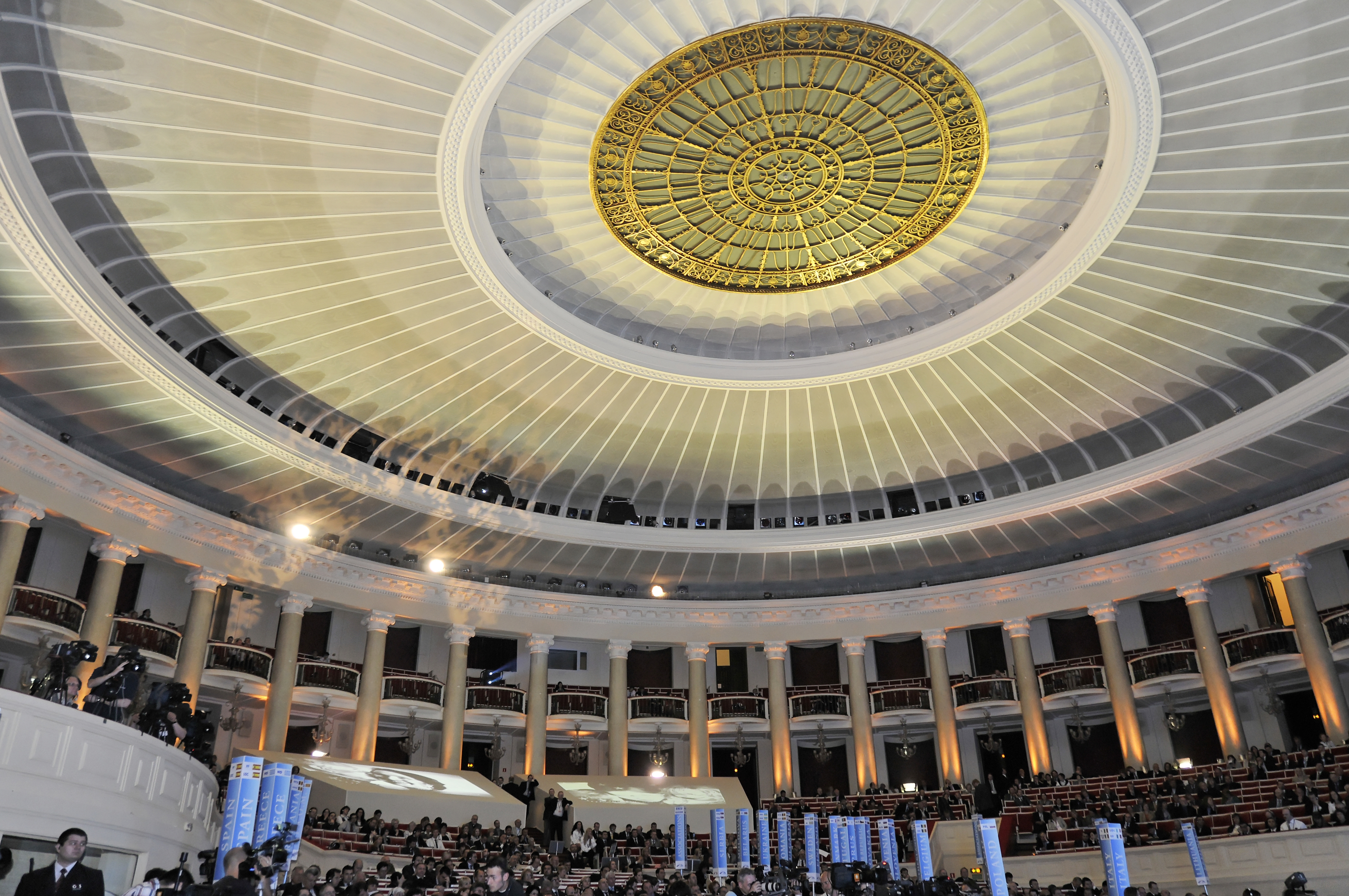 EPP Congress Warsaw